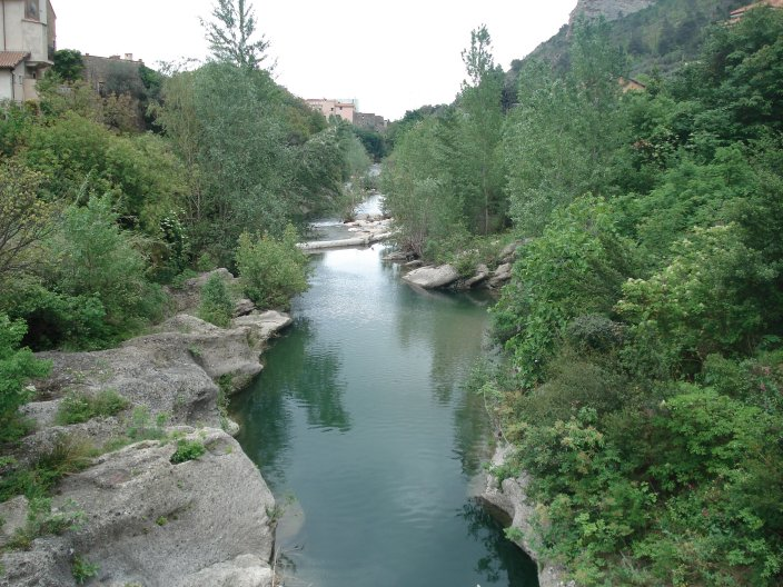 Neva river near Cisano sul Neva